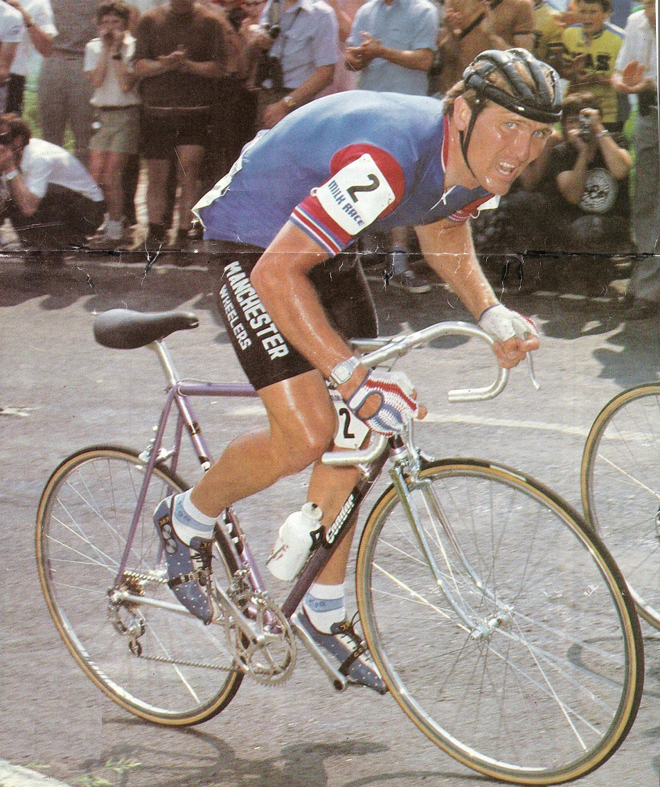 Bob Downs